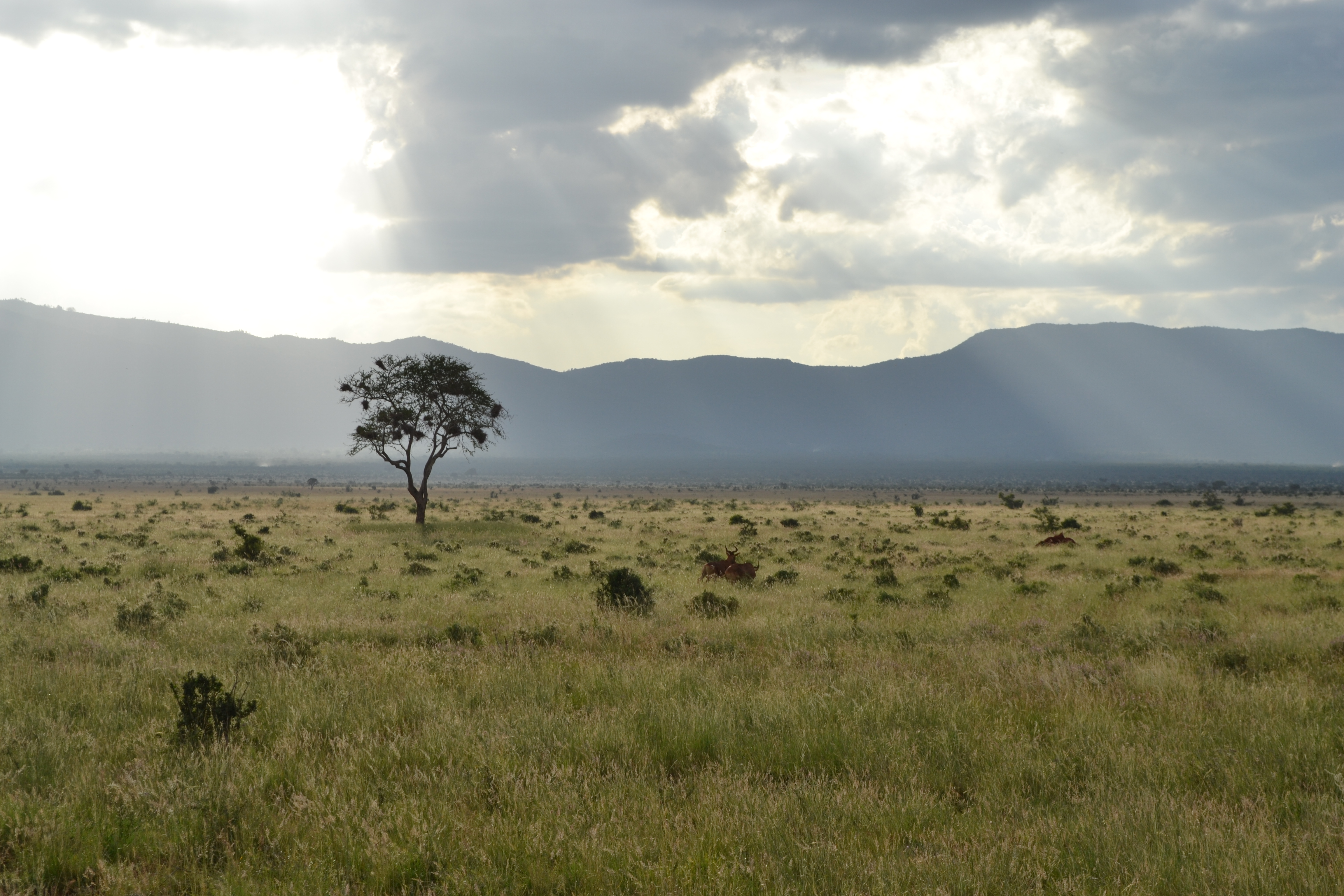 View of the savanna towards the west, with a Alcelaphus buselaphus cokii (Coke's Hartebeest) pair in the foreground, and crepuscular rays visible through the clouds behind them, in the Tsavo East National Park, Kenya.